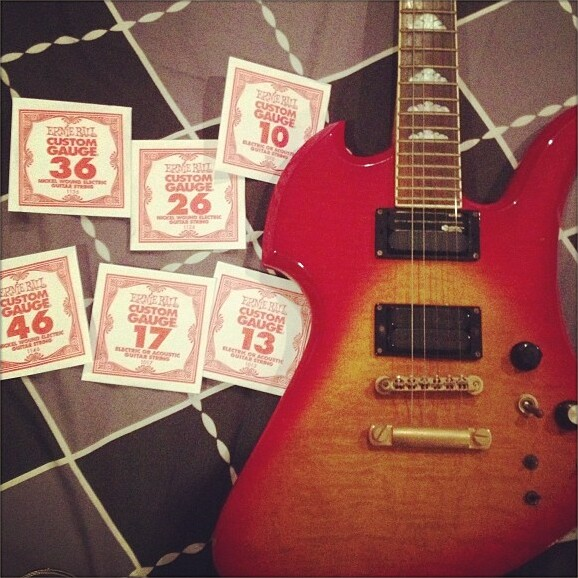 “I haven't change the strings for a long time. #burny #MG-X #Hide #X-Japan #Guitar #Fernandes”